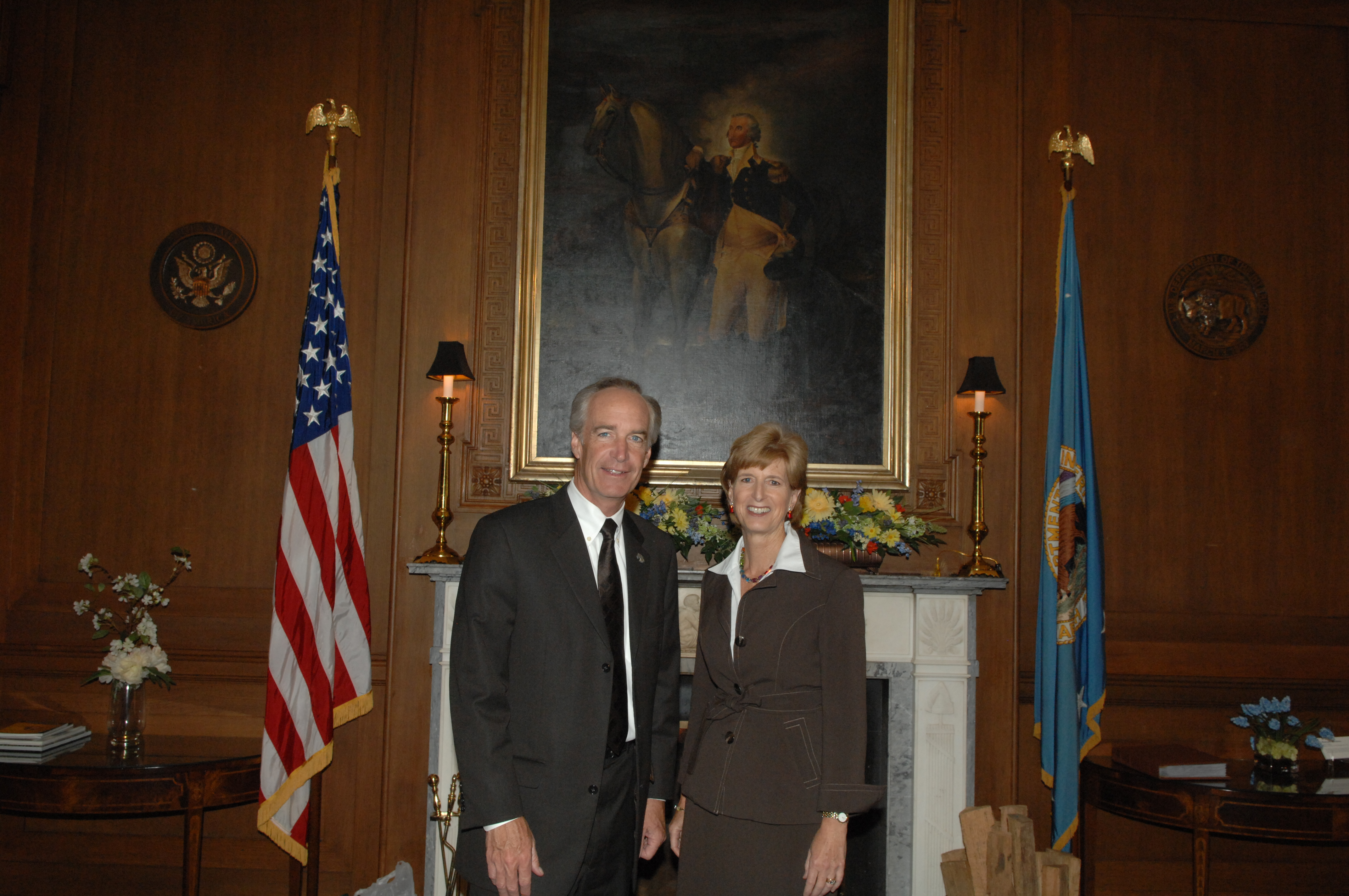 [Assignment: 48-DPA-05-27-08_SOI_K_Whitman] Secretary Dirk Kempthorne [receiving visit at Main Interior from] Christine Todd Whitman, [Co-Chair of the Clean and Safe Energy Coalition, former Environmental Protection Agency Administrator, and former New Jersey Governor] [48-DPA-05-27-08_SOI_K_Whitman_IOD_6041.JPG], 5/28/2008